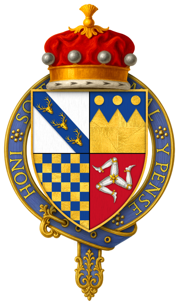 Coat of arms of Sir George Stanley, 9th Baron Strange, of Knockyn, KG